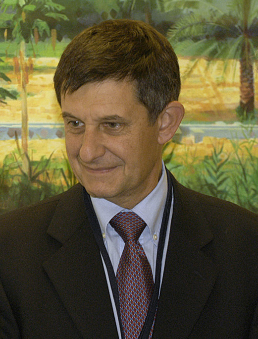 Jean-Pierre Jouyet, Head of the French Treasury